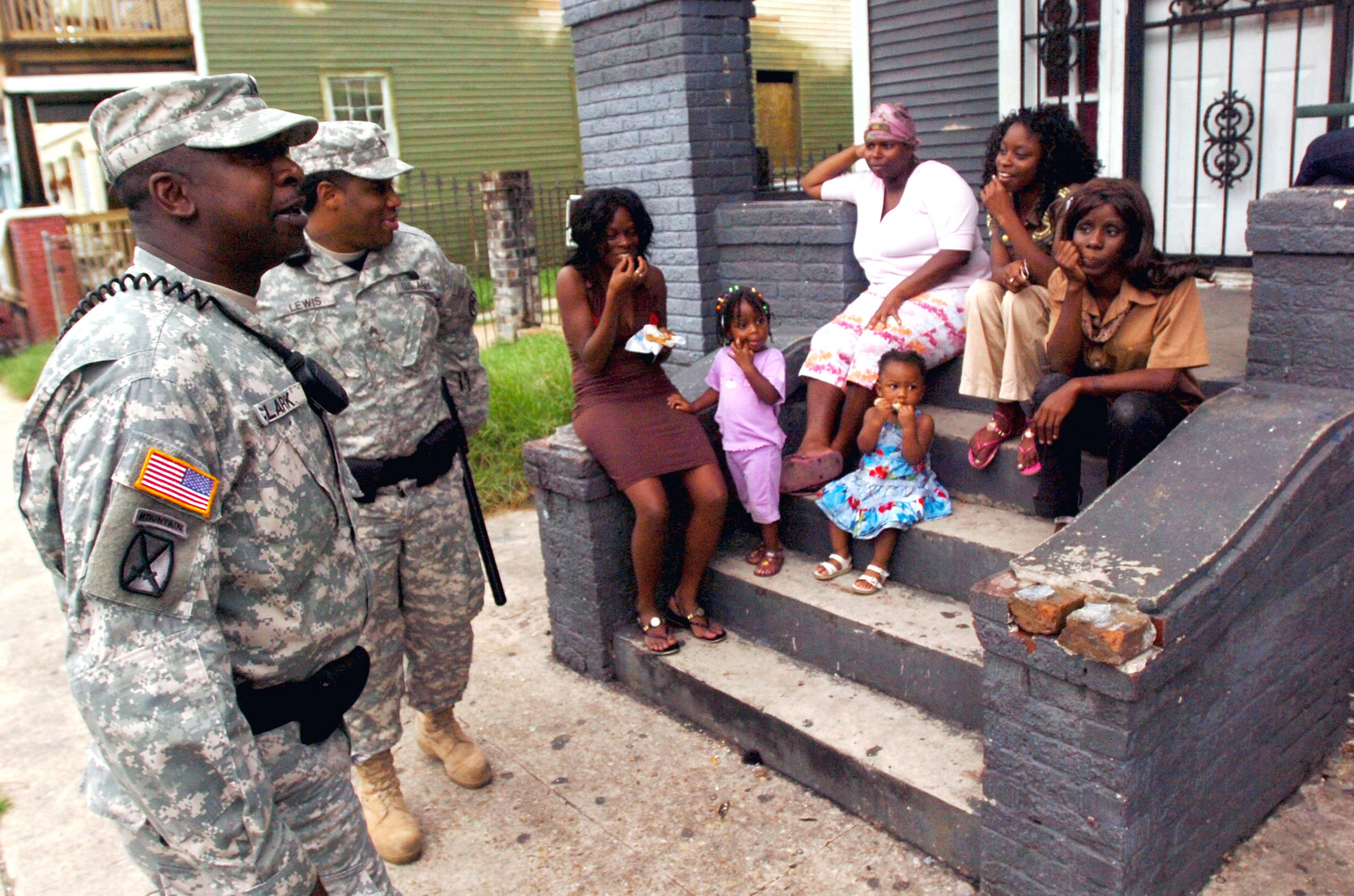 Sgts. Willie Clark, left, and Wayne Lewis talk with residents as they patrol in New Orleans, Friday, July 31, 2008. JTF Gator has been providing law enforcement assistance to the New Orleans Police Department and is scheduled to cease operations on Dec. 31, 2008. (U.S. Army photo by Staff Sgt. Jon Soucy)(released)